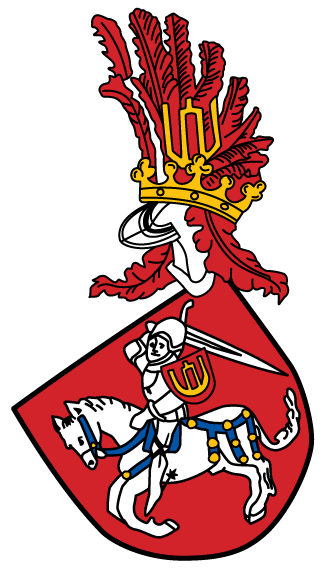 Vytis, Coat of Arms of Lithuania redrawn from armorial Codex Bergshammar of the 15th century.